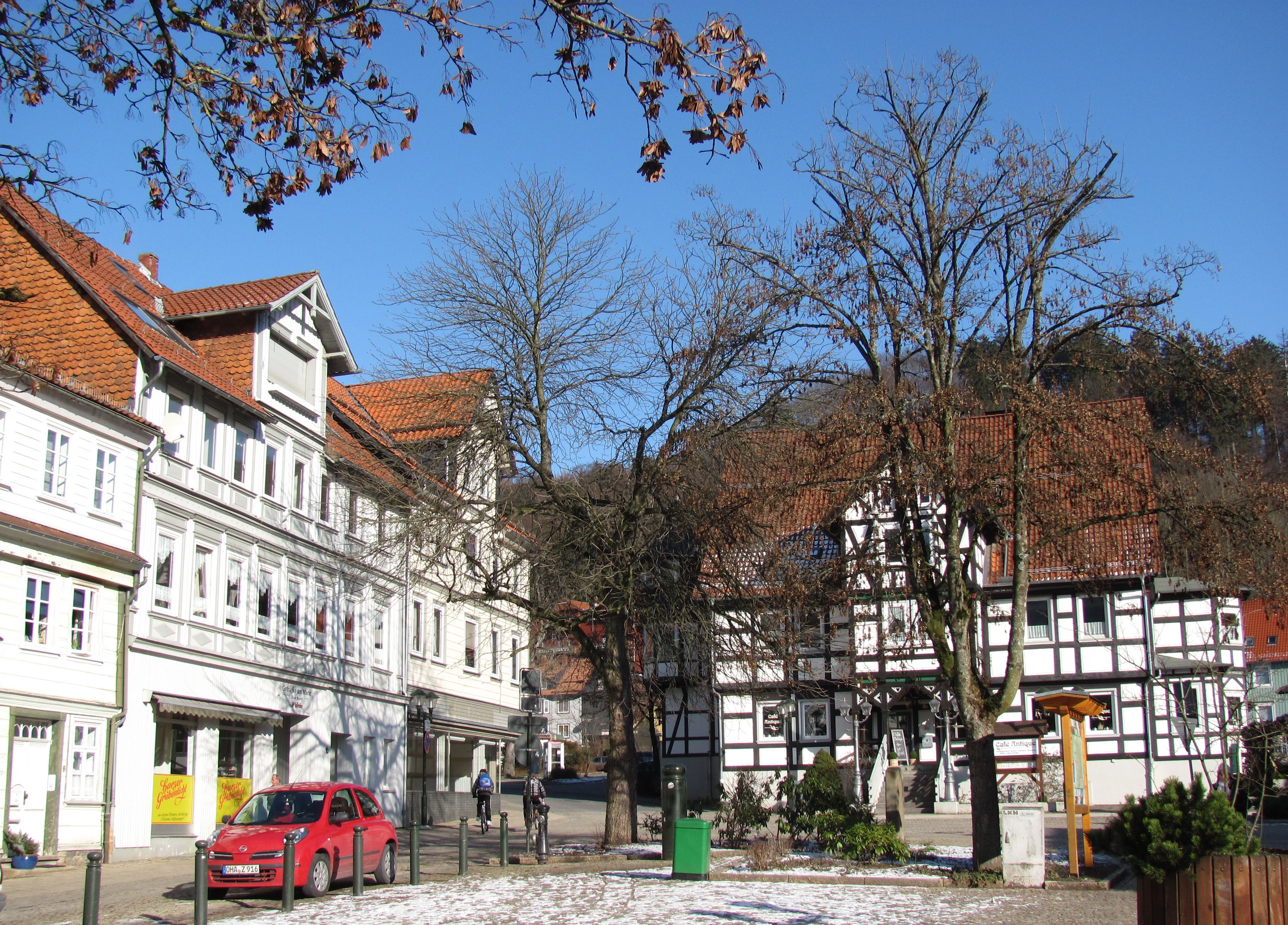 Market Place, Bad Grund, Harz Mountains,Germany